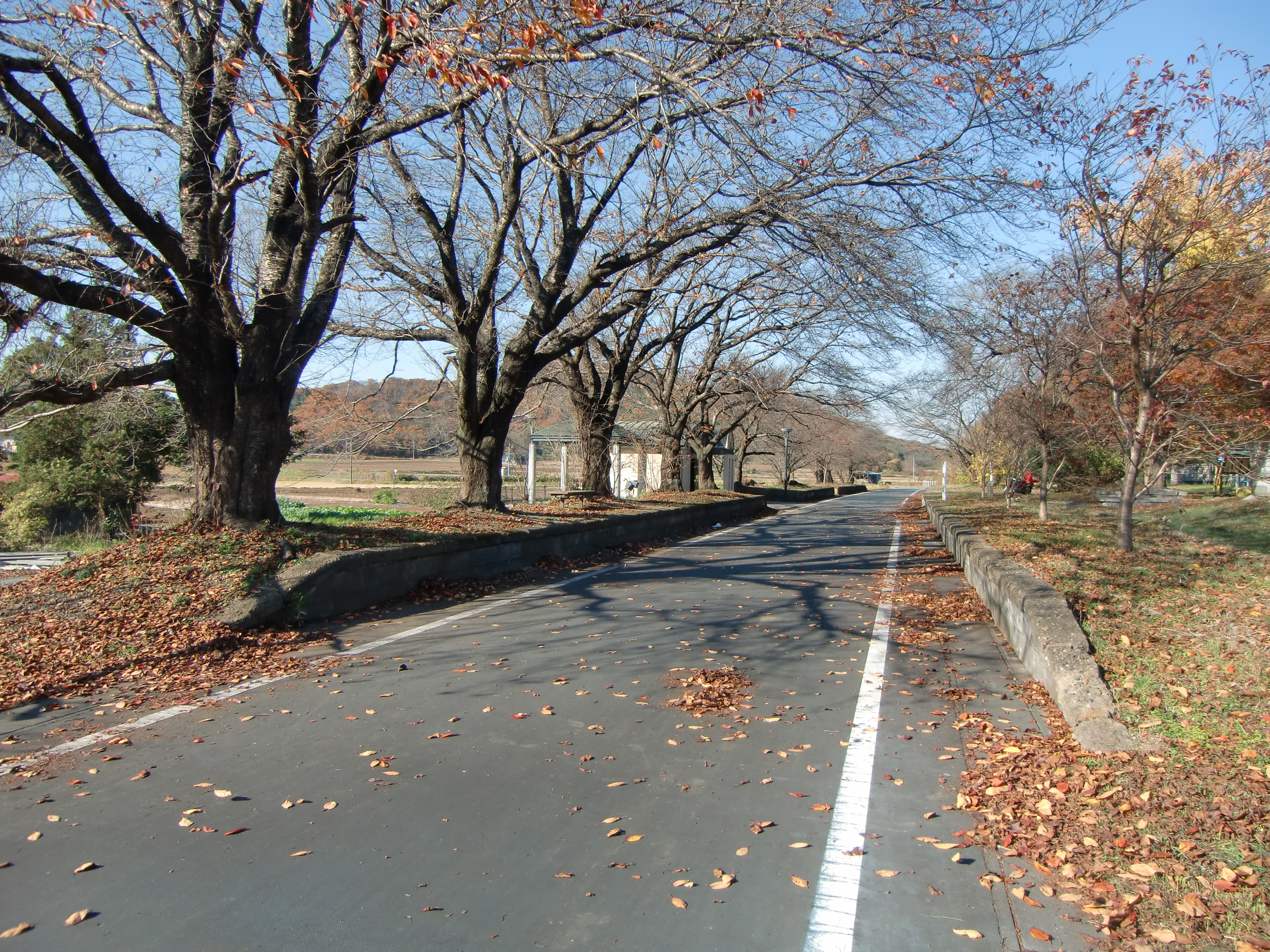 The site of AMABIKI station of Tsukuba Railway in Sakuragawa-city, Ibaraki pref, JAPAN.